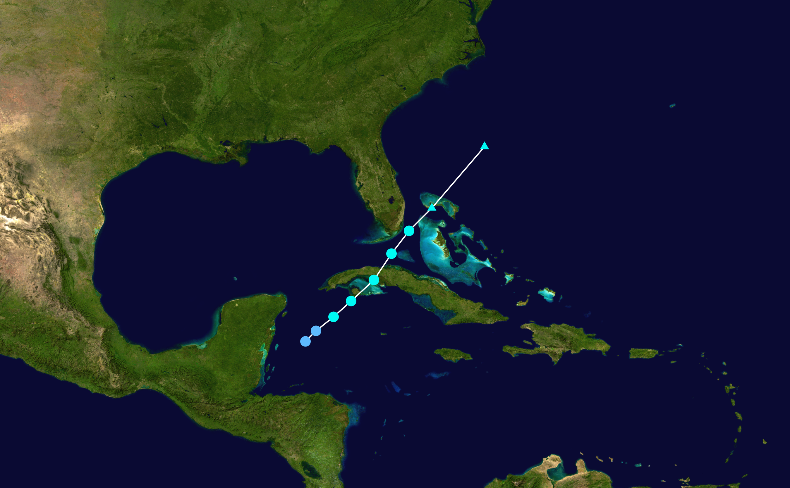 Track map of Tropical Storm Fabian of the 1991 Atlantic hurricane season. The points show the location of the storm at 6-hour intervals. The colour represents the storm's maximum sustained wind speeds as classified in the Saffir–Simpson scale (see below), and the shape of the data points represent the nature of the storm, according to the legend below. Saffir–Simpson scale Tropical depression≤38 mph≤62 km/h Category 3111–129 mph178–208 km/h Tropical storm39–73 mph63–118 km/h Category 4130–156 mph209–251 km/h Category 174–95 mph119–153 km/h Category 5≥157 mph≥252 km/h Category 296–110 mph154–177 km/h Unknown Storm type Tropical cyclone Subtropical cyclone Extratropical cyclone / Remnant low / Tropical disturbance / Monsoon depression